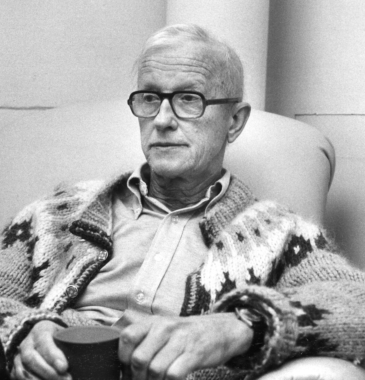 I would like to thank Dr. Ernst Peter Fischer, a former friend of Max Delbrück, for sending me the original photo by mail. He agreed to release it under the GNU license. The picture was taken during the last years of Delbrück; the exact year is not known.